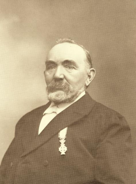 Portrait of Peder Jørgensen (1835-1914), Danish educator, editor, farmer and Member of the Folketing